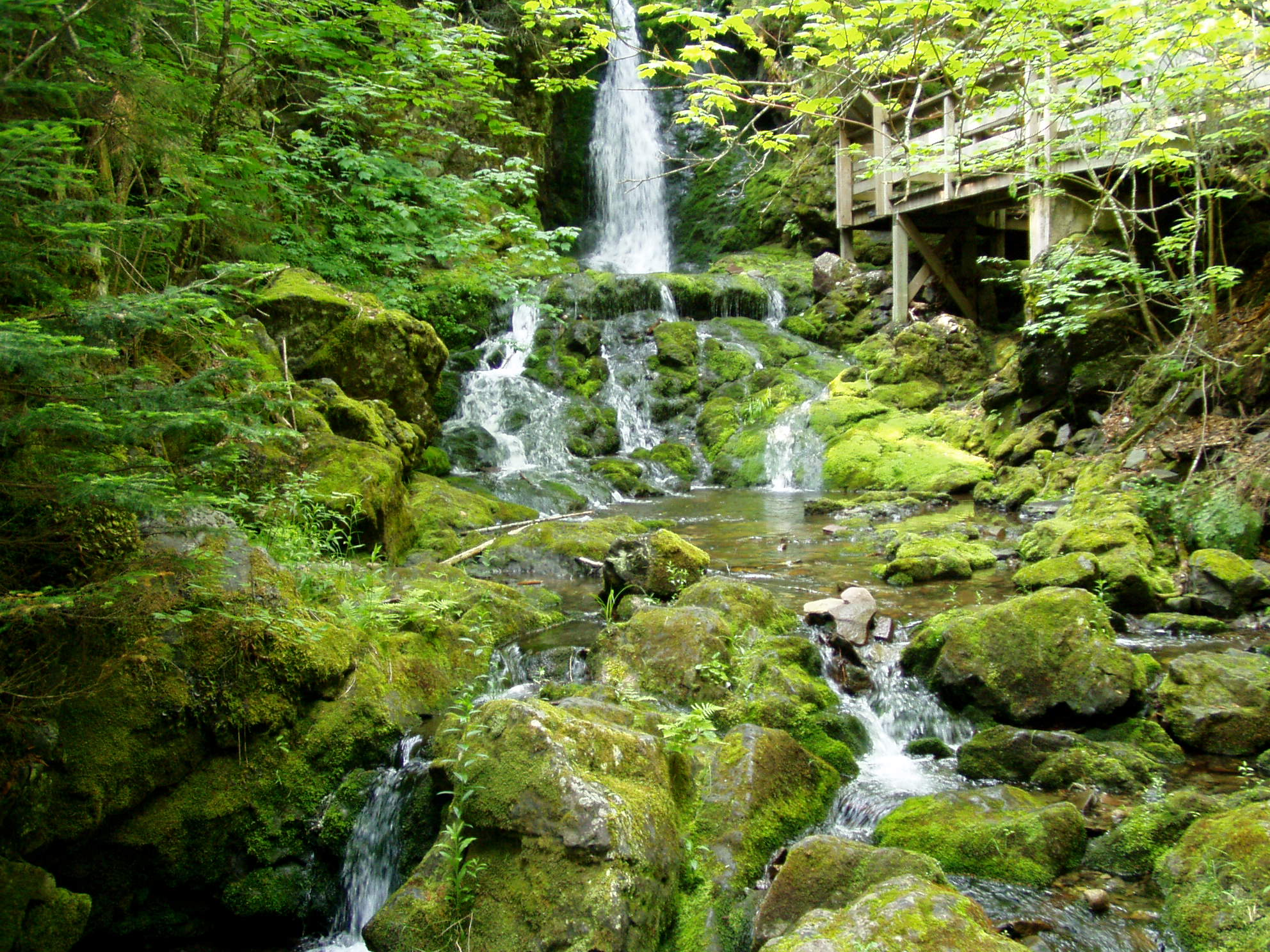 Dickson Falls. Fundy National Park of Canada, New Brunswick. Photo taken in July 2004 by myself, Danielle Langlois.